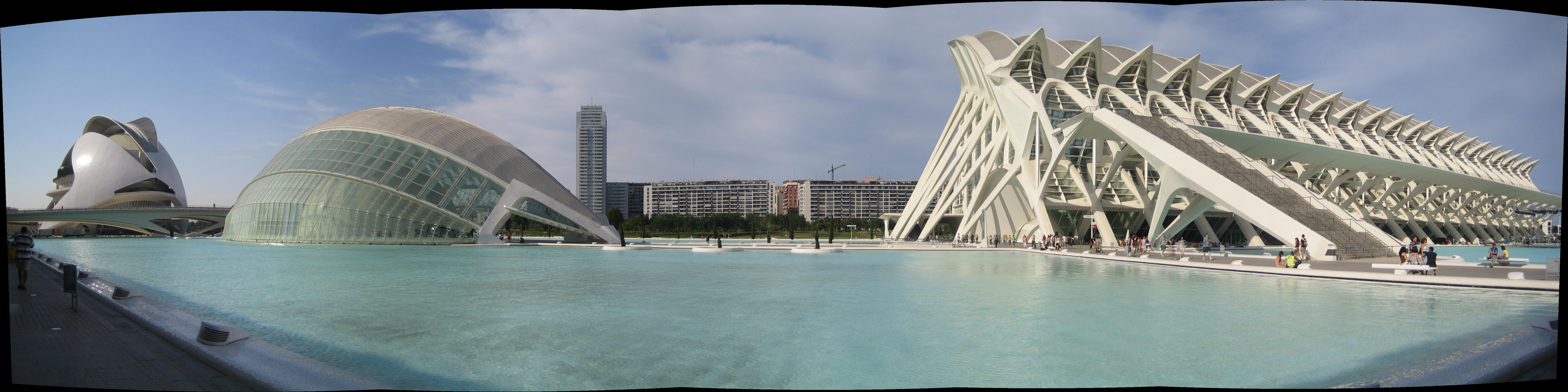 Panoramic view of Ciutat de les arts i les ciencies in Valencia. 5 shots stitched with autostitch